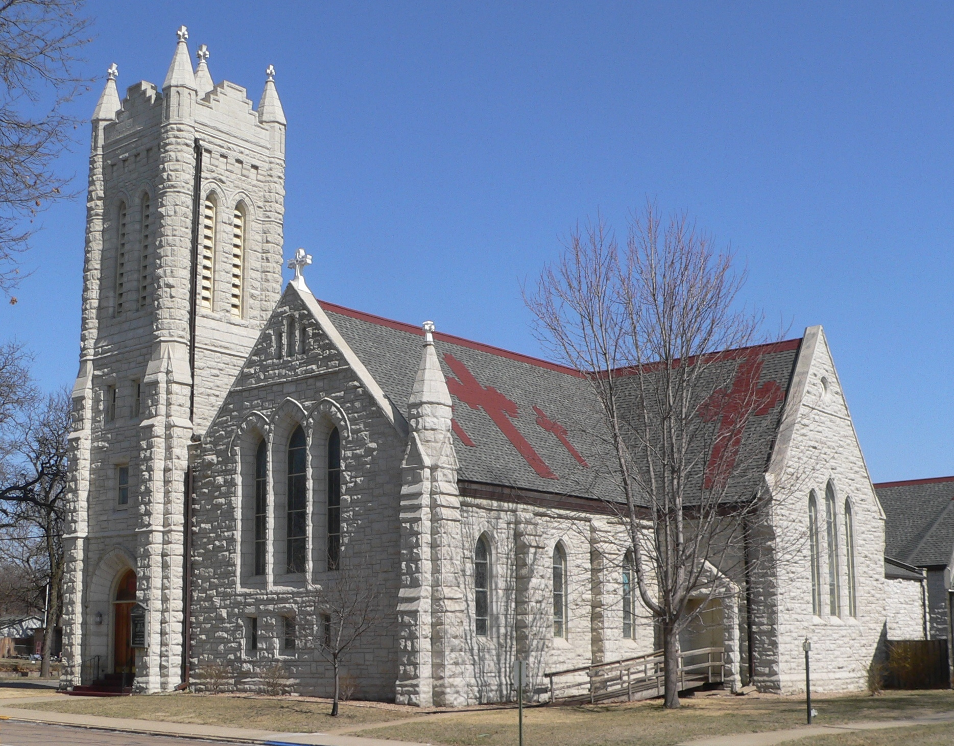 Christ Church Episcopal, located at 520 N. 5th Street in Beatrice, Nebraska: church, seen from southwest.